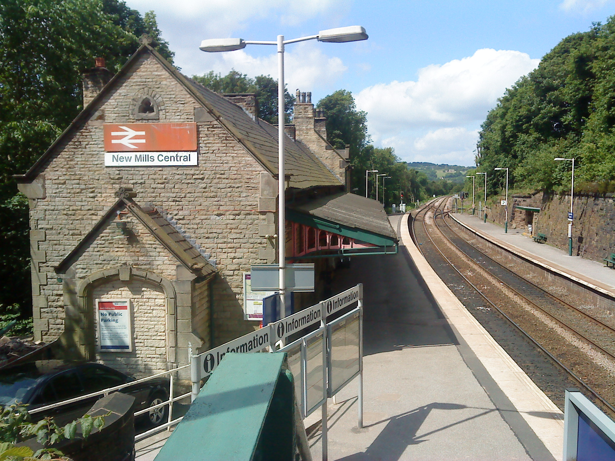 New Mills Central Railway Station in 2009